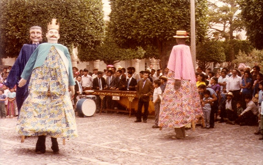 Giants dance to marimba, Antigua Guatemala, on main square. Corpus Christi Day.